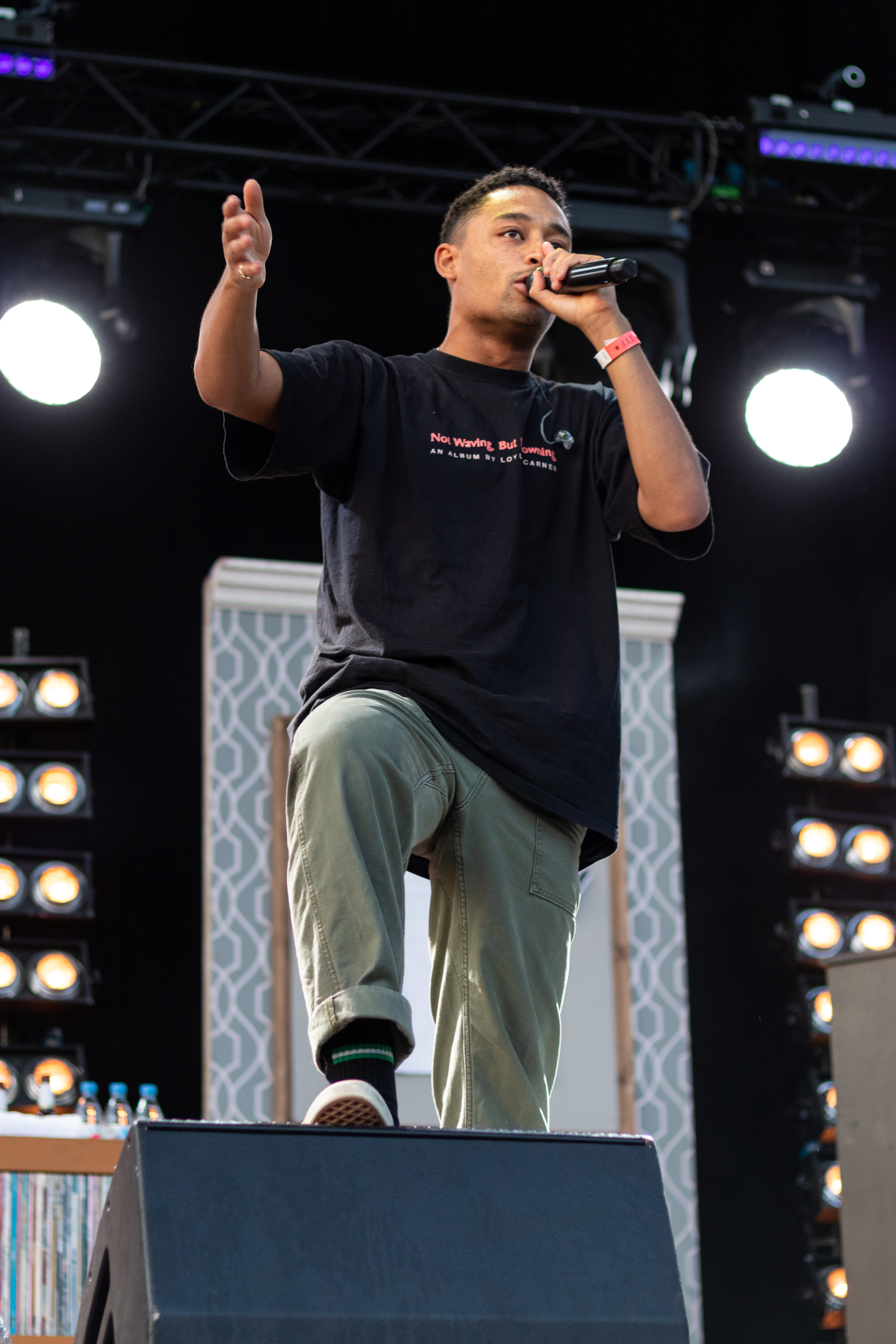 Loyle Carner on the Mainstage at Haldern Pop Festival 2019.